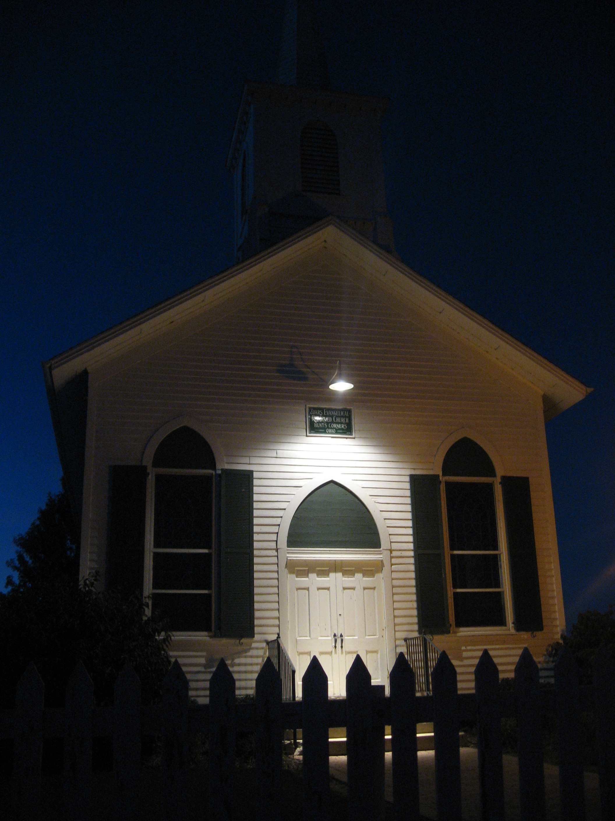 Front of the former Hunts Corners United Church of Christ (now a museum), located at 4552 State Route 547 at Hunts Corners in Lyme Township, Huron County, Ohio, United States. The church forms an integral part of the Hunts Corners historic district, which is listed on the National Register of Historic Places.